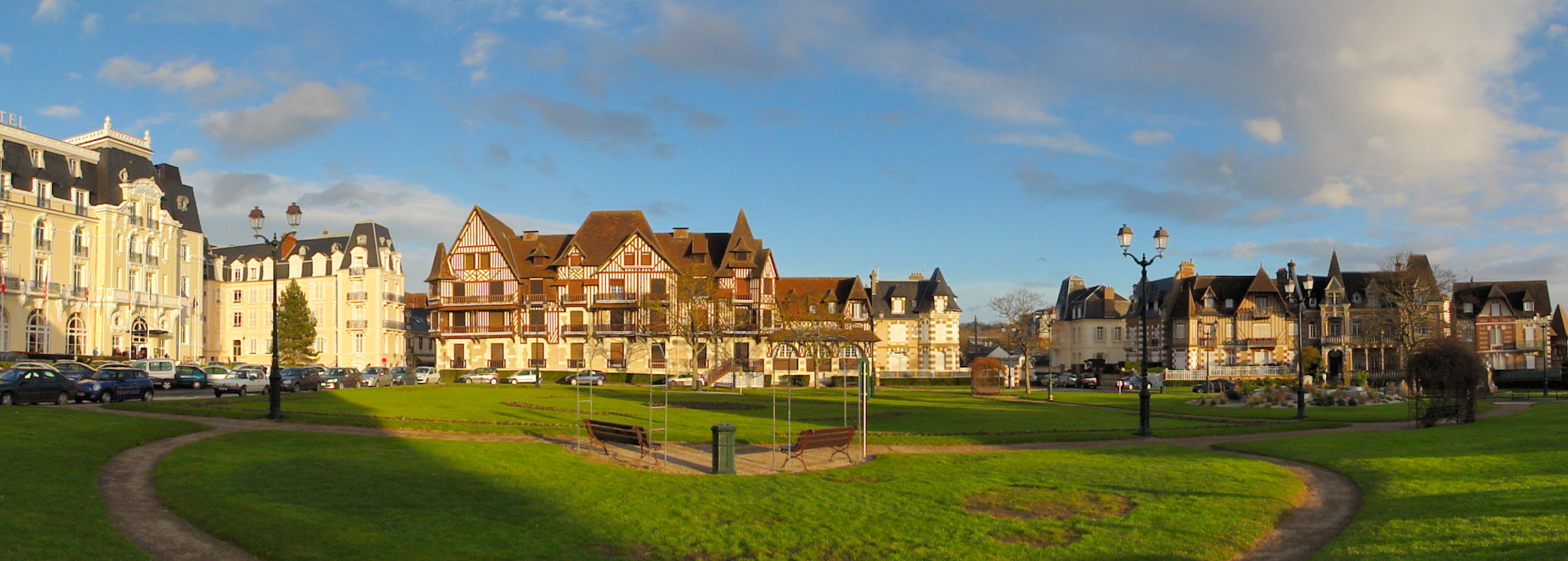 Cabourg (Calvados, France).